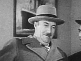 Tiny Sandford in A Shriek in the Night (1933) - cropped screenshot